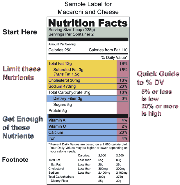 This U.S. Government Nutrition Facts panel illustrates which nutrients experts recommend you limit and which they recommend you consume in adequate amounts. in